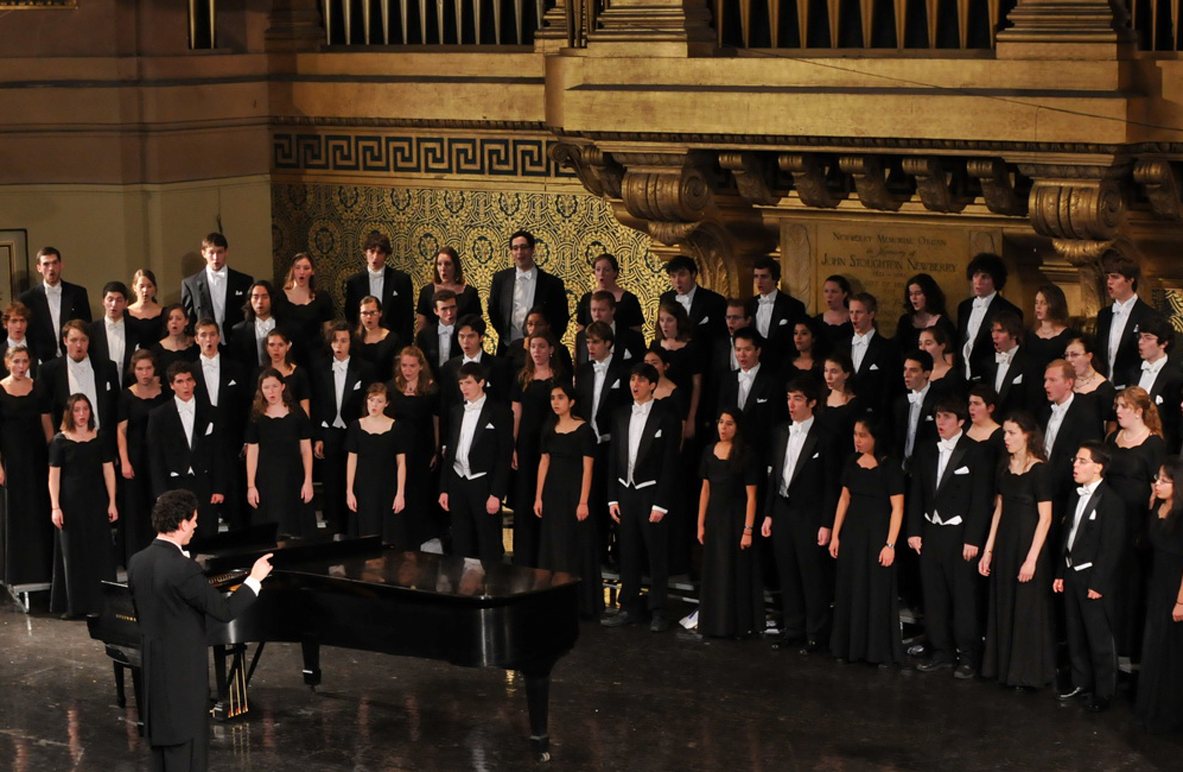 Yale Glee Club performing in Woolsey Hall at Yale University, 2010